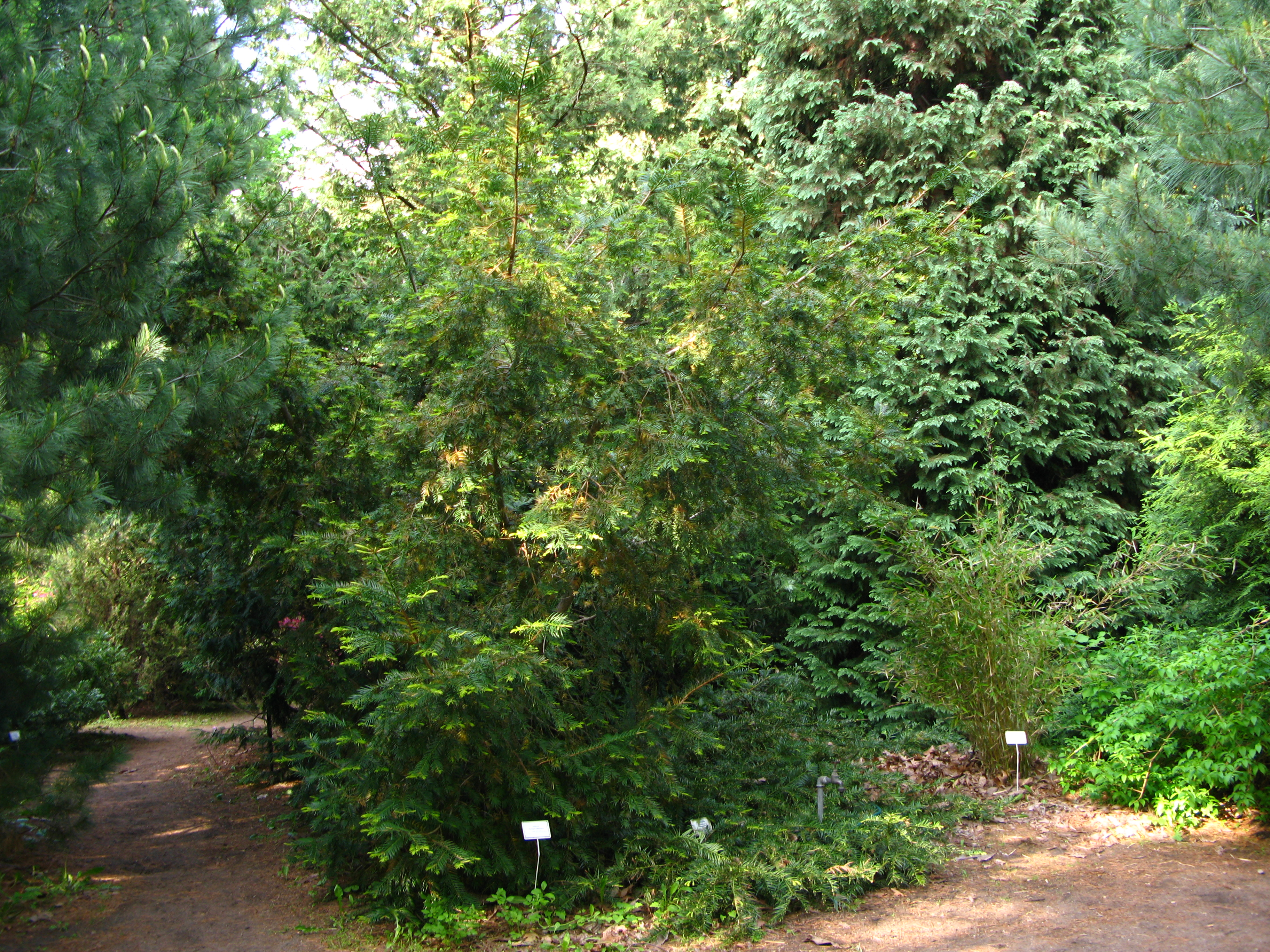 Torreya californica in PAN Botanical Garden in Warsaw